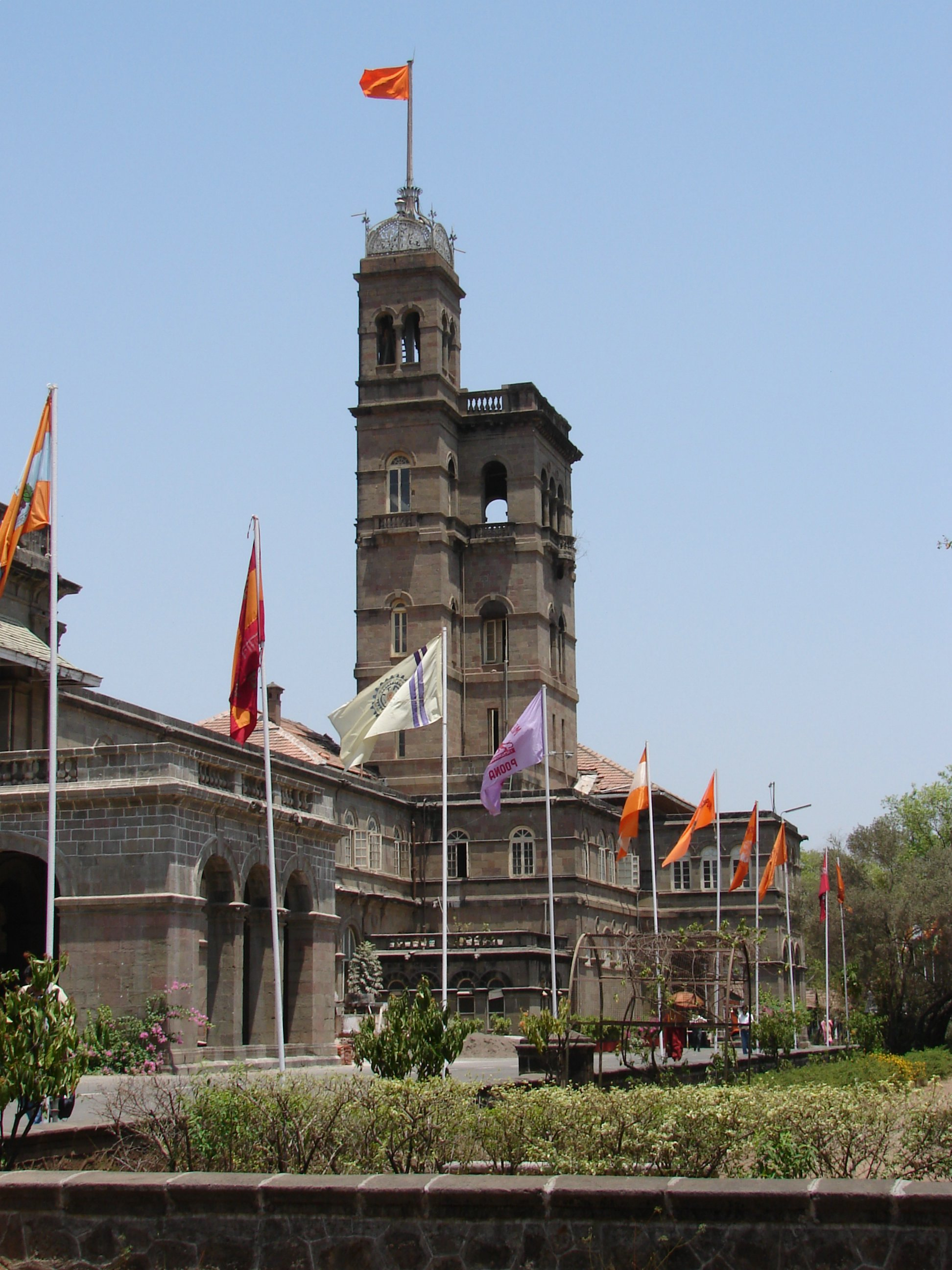 Main building which is more than 100 years old, University of Pune, Pune.